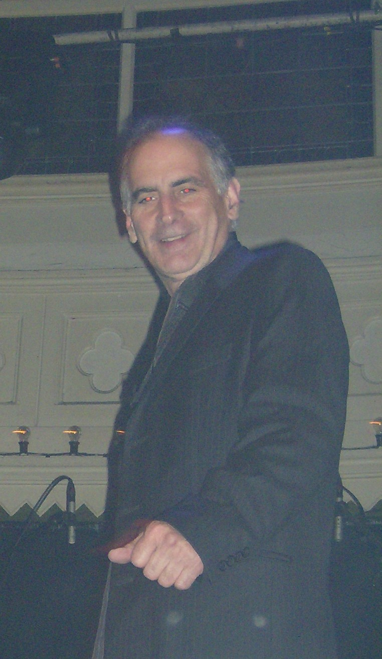 Eddie Manion, altsaxophonist with Southside Johnny and the Asbury Jukes, live in Amsterdam, October 5, 2007